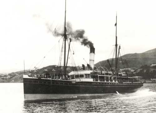 SS Penguin was New Zealand's worst shipping disaster of the 20th Century